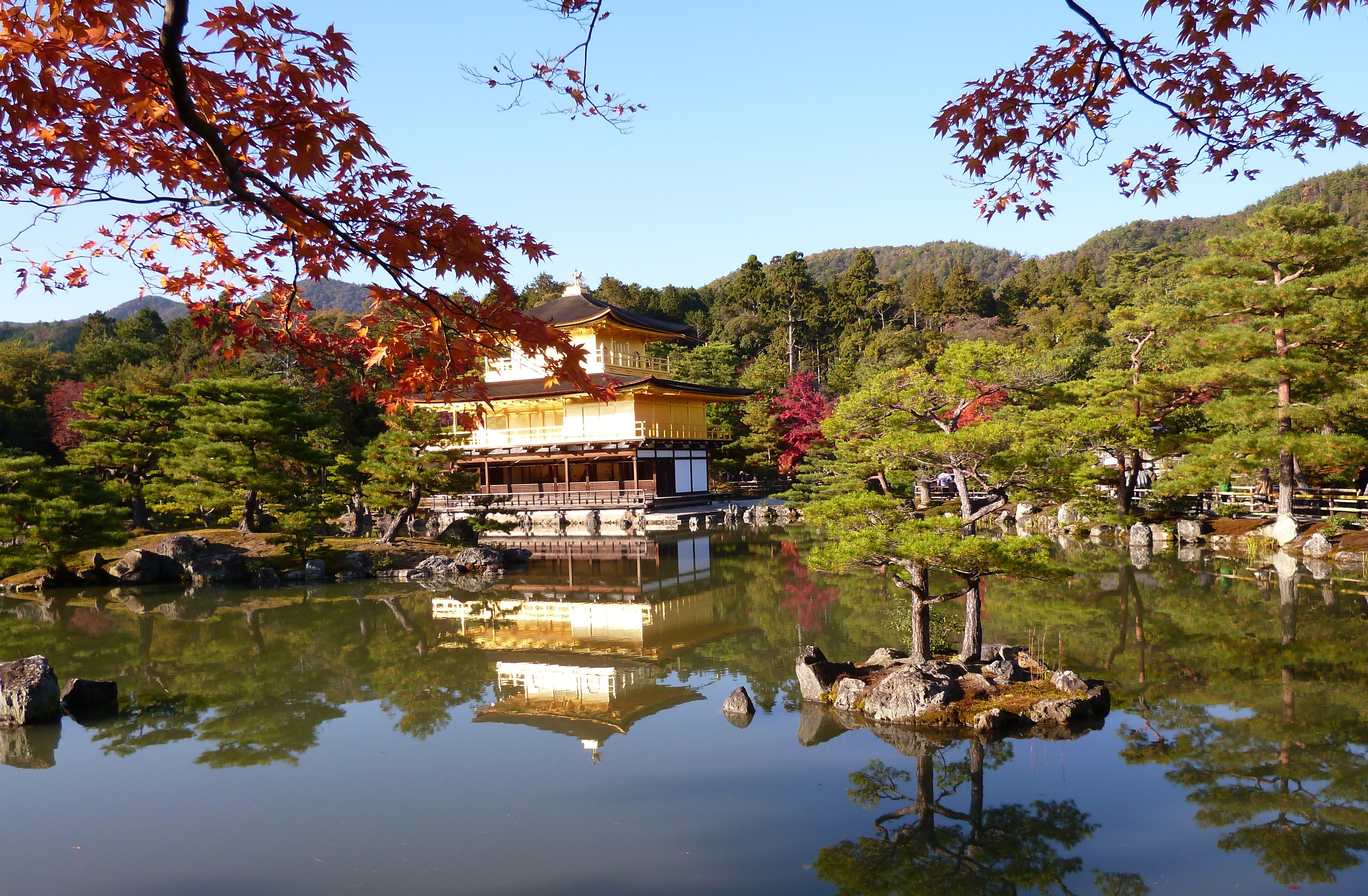 Historic Monuments of Ancient Kyoto (Kyoto, Uji and Otsu Cities) (Japan)